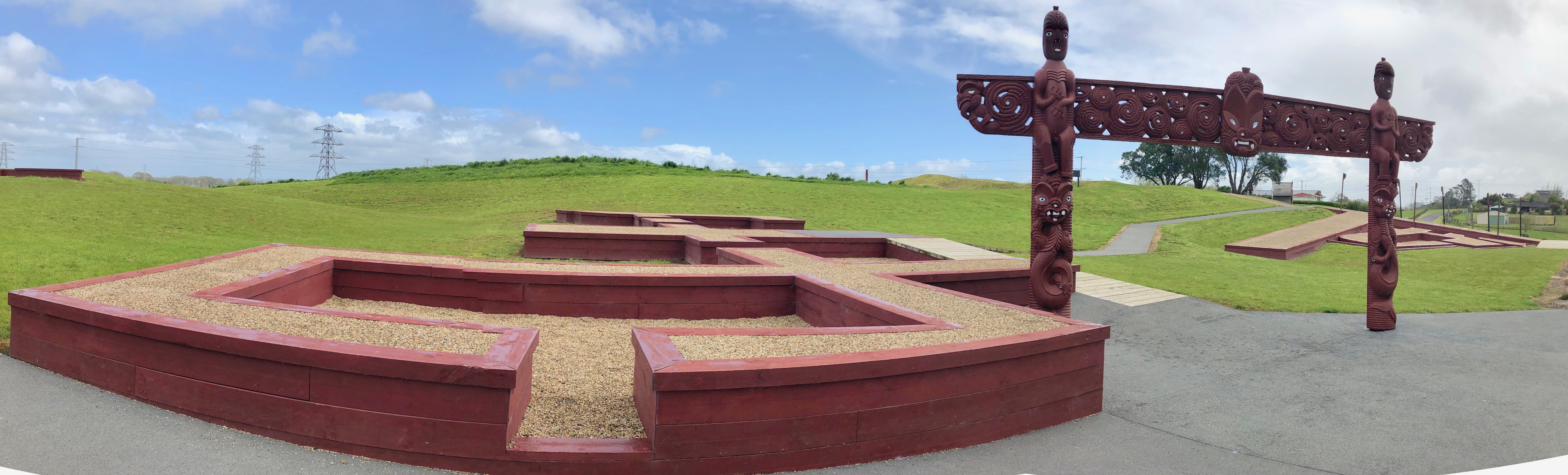 This was built as part of the Waikato Expressway landscaping